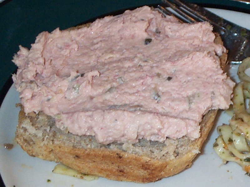 Ham salad spread (produced by Wil-Den Family Farms of Jackson Center, Pennsylvania; purchased at North Union Farmers Market at Shaker Square in Cleveland, Ohio) on wheat bread. Crop from original source.